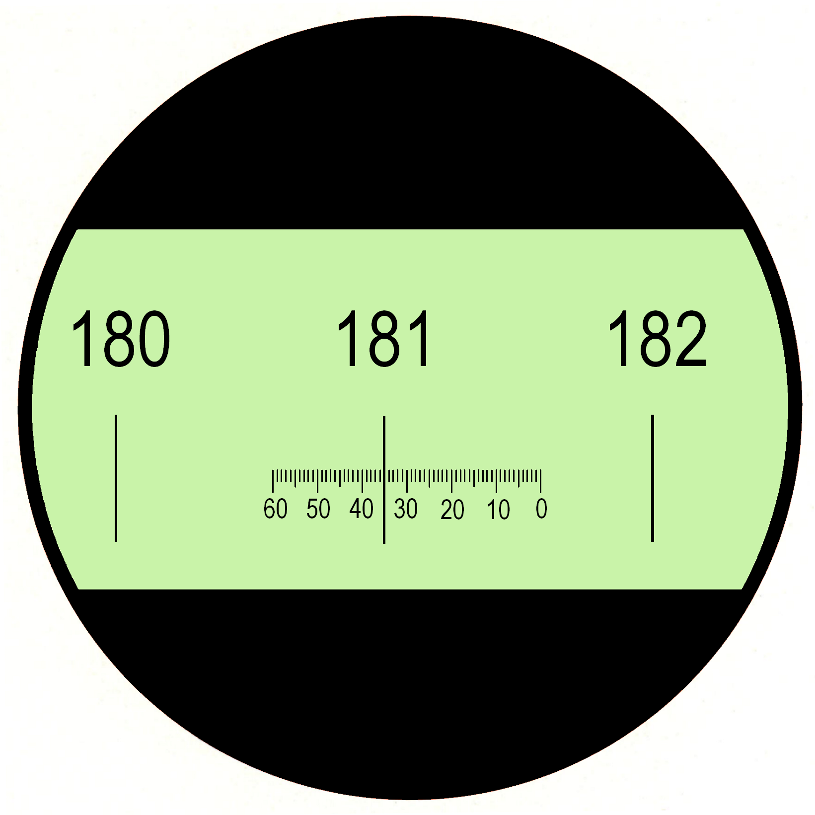 angle nonius